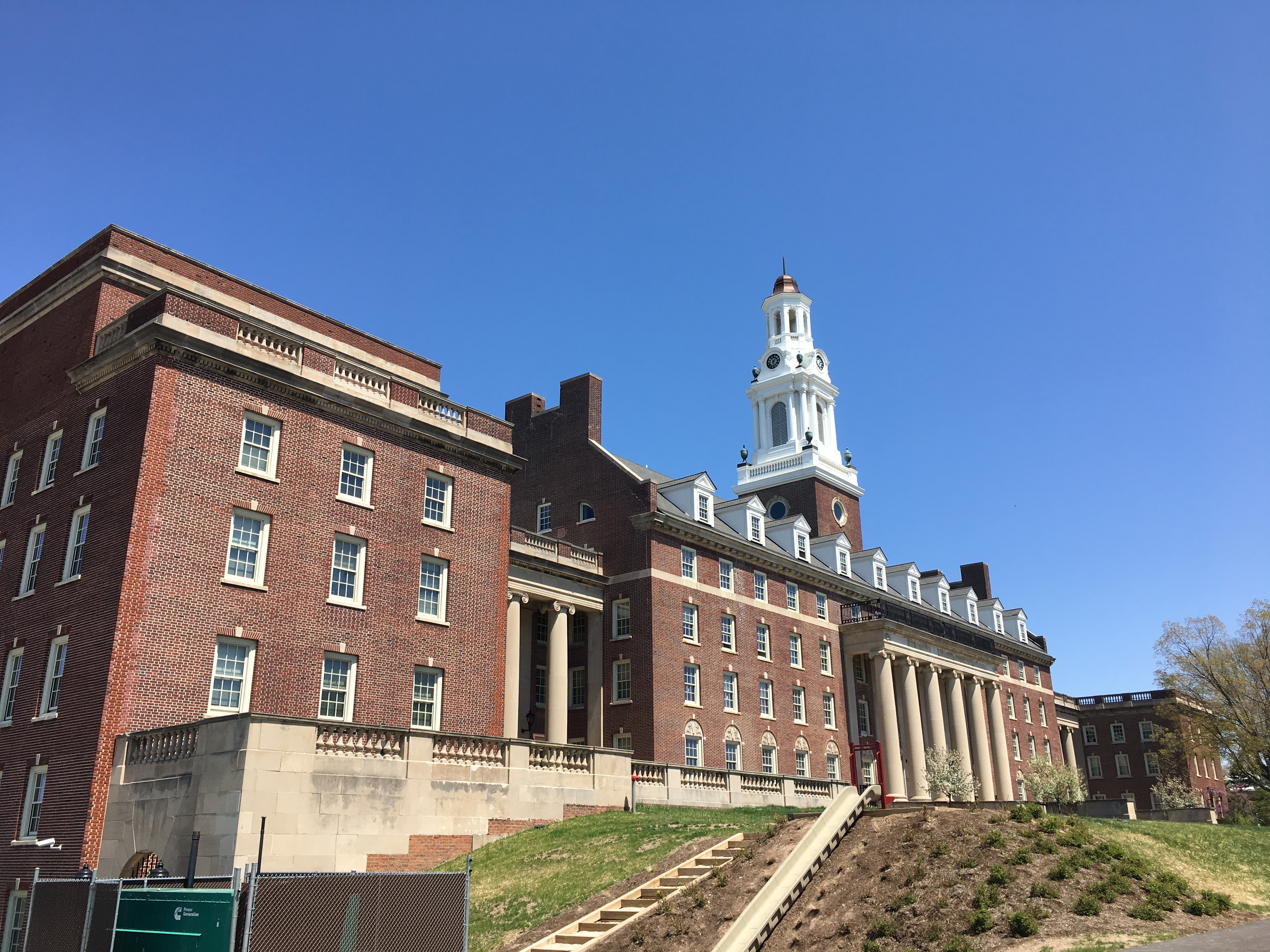 Front (south) facades of the west, central, and east wings of the former St. Luke's Hospital, a listing on the National Register of Historic Places in Cleveland, Ohio.